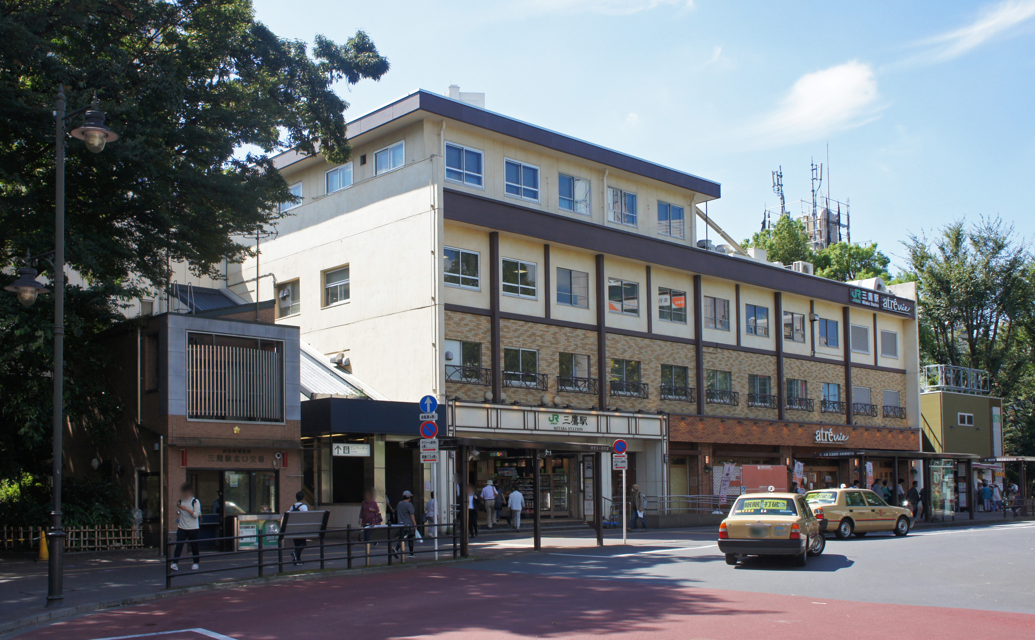 North Exit of JR Chuo-Main-Line Mitaka Station